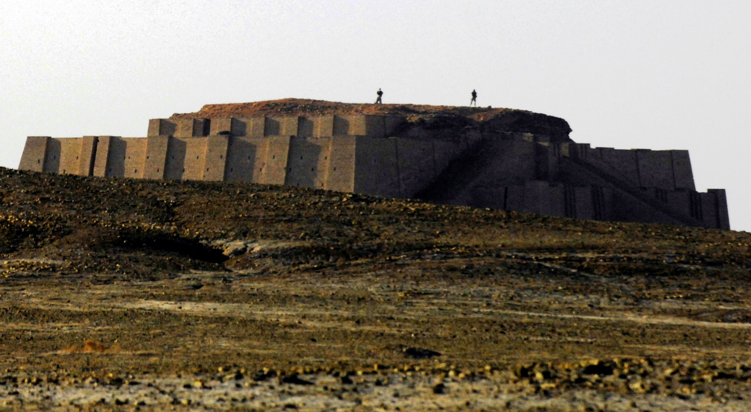 The Great Ziggurat of Ur in 2007 at a visit of the US Army.